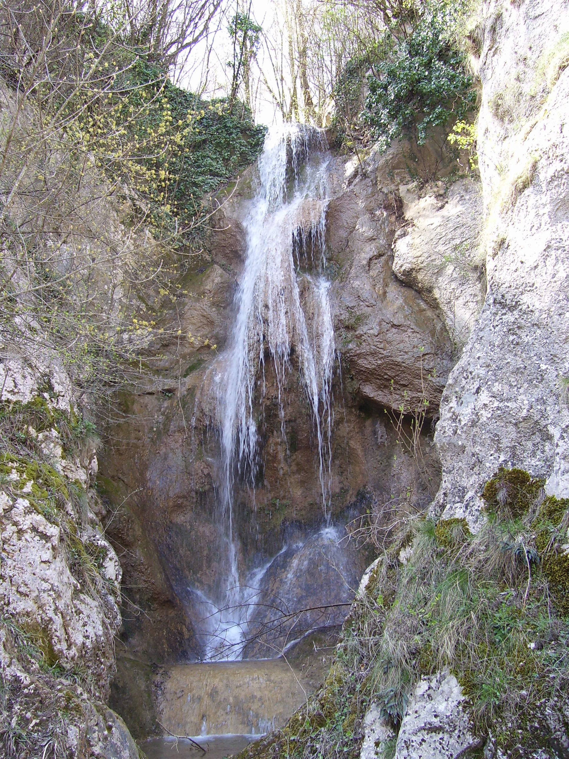 Waterfall in Jelašnička Gorge, Serbia